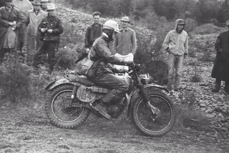 Oriol Puig Bultó on a Bultaco Sherpa S at the 1962 ISDT, in Garmisch-Partenkirchen, where he won his first gold medal in this hard competition